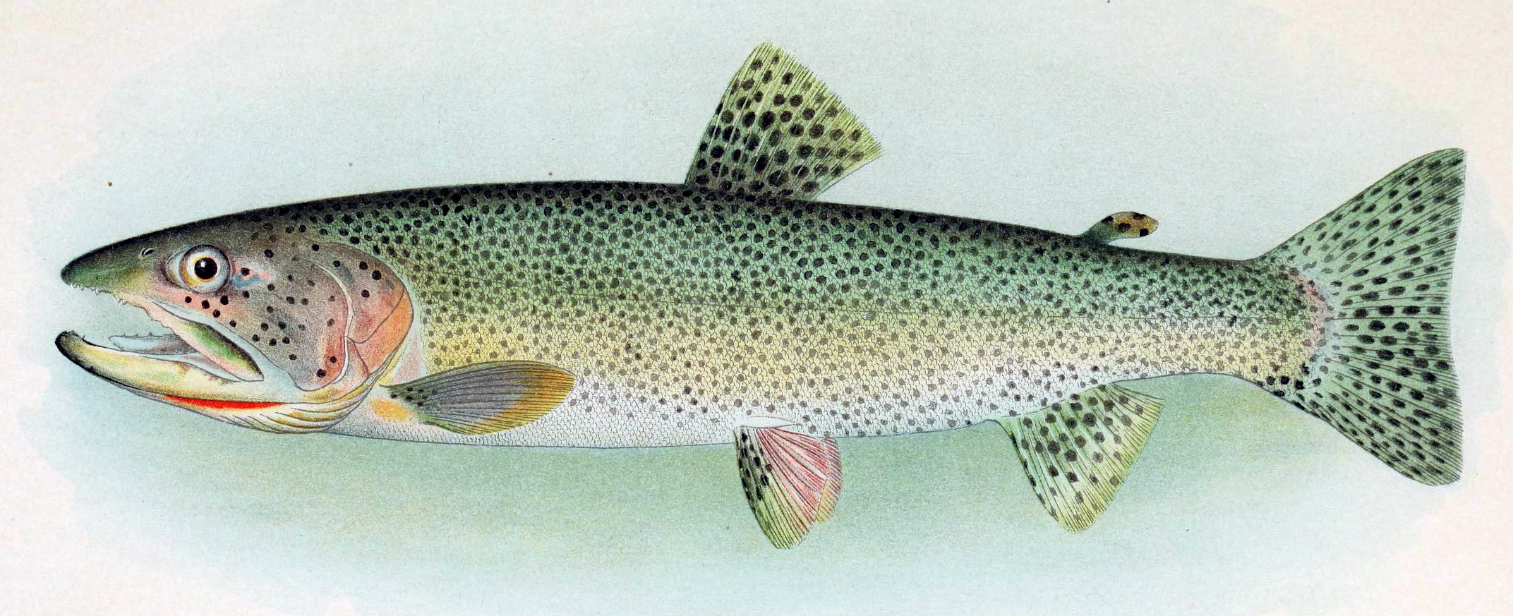 Alaska Cutthroat trout female Oncorhynchus clarkii